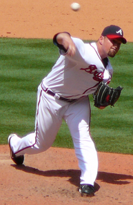 Picture I took of Tyler Yates on 5-10-07 23:41, 13 May 2007 . . Chrisjnelson . . 193×297 (101,423 bytes)